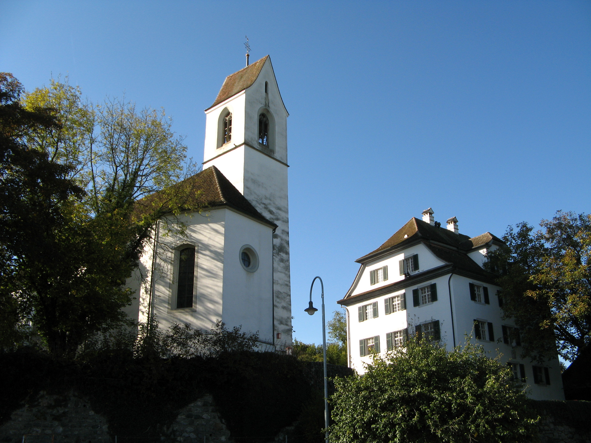 View of Old Church and Artist's House (former rectory) in Boswil